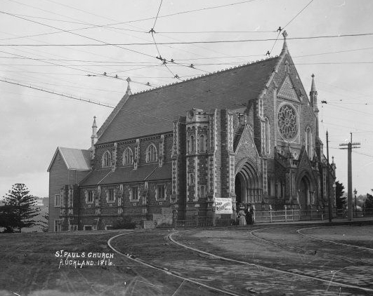 St Paul's Church, Auckland, 1909 Reference Number: 1/2-000541-G Photographer: William Archer Price Dry plate glass negative Price Collection, Photographic Archive, Alexander Turnbull Library National Library information page on image.